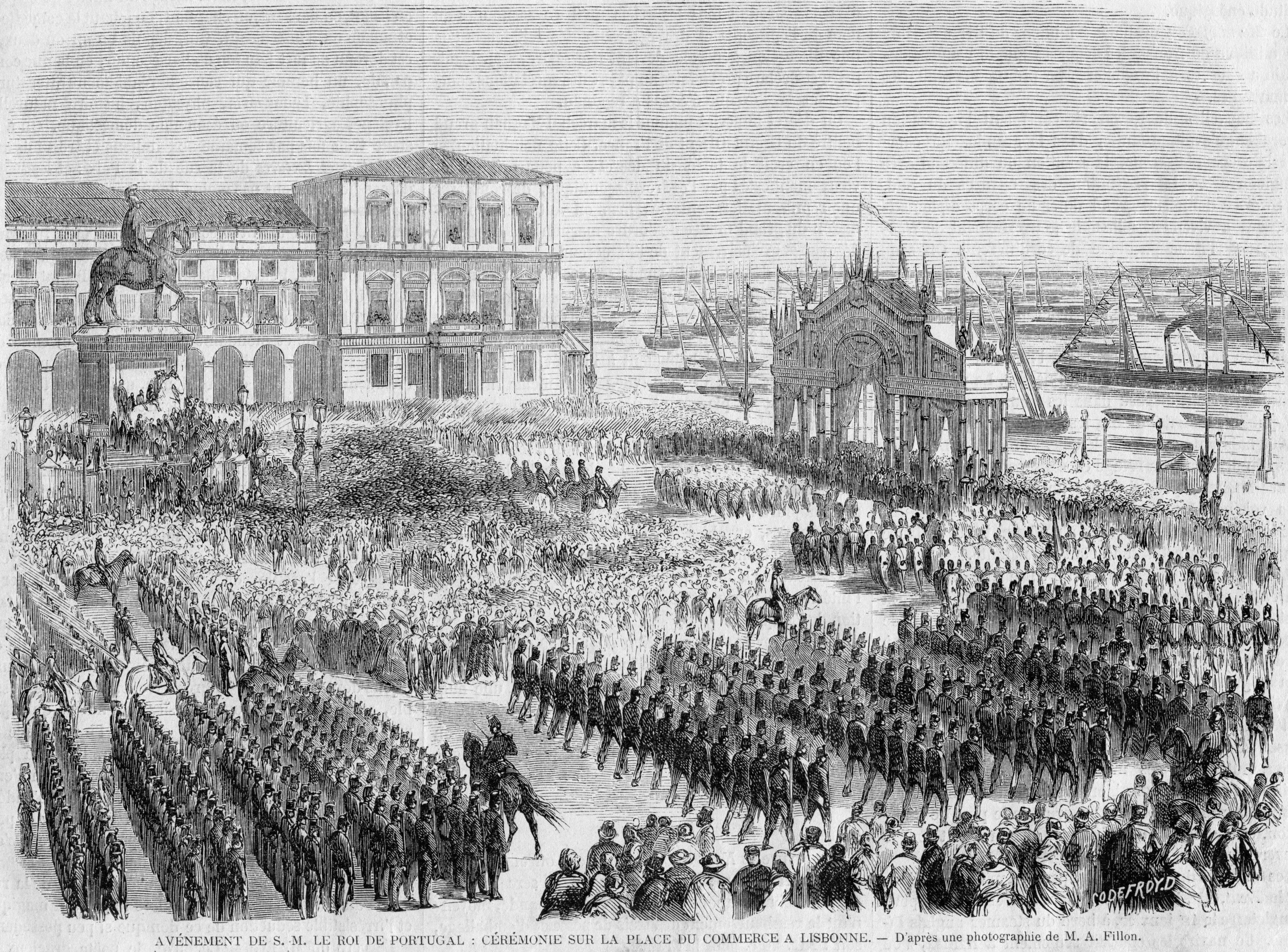 L'Illustration 1862 gravure L'Avènement du Roi de Portugal Luis I